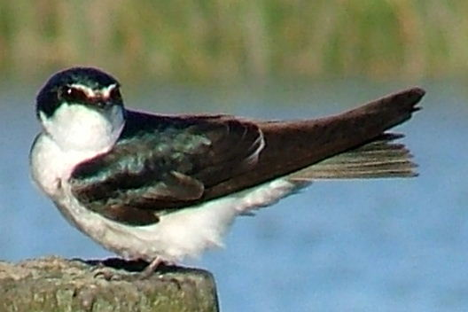 White-rumped swallow (Tachycineta leucorrhoa) at General Lavalle, Buenos Aires, Argentina